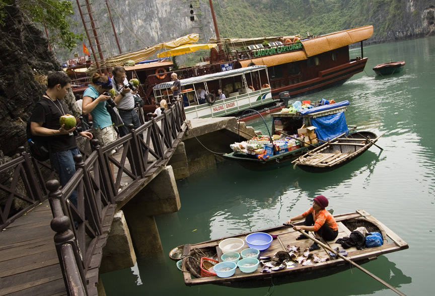 Photography class members taking photos at fish sale in Cambodia